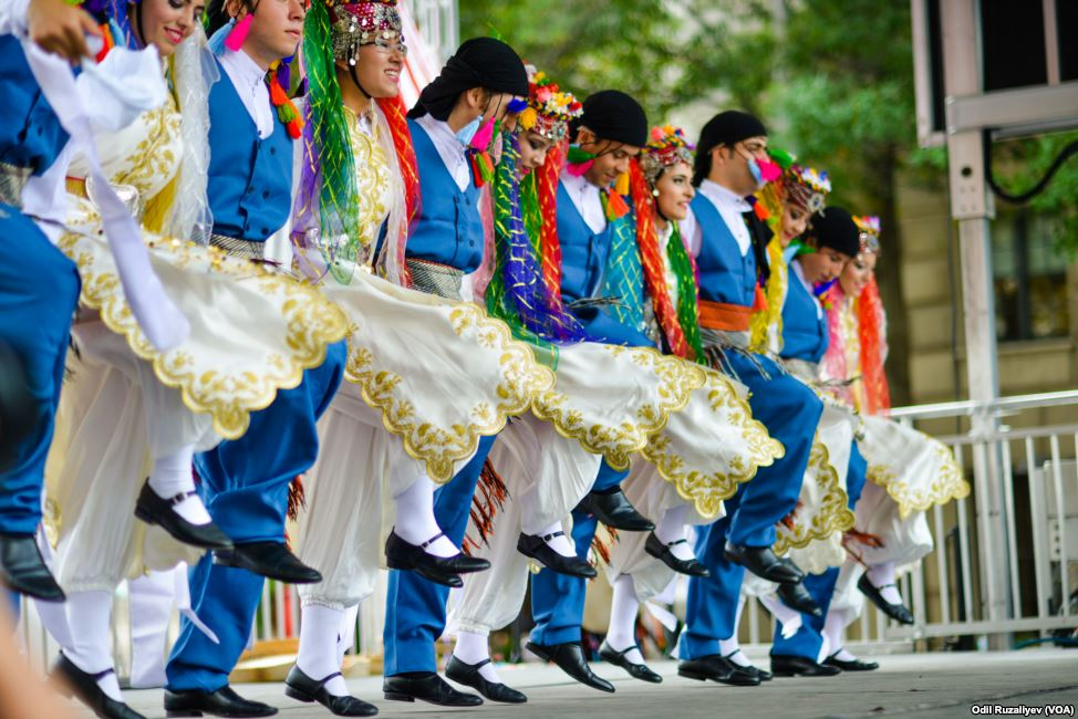 Turkish Folk dance team at Turkish Culture Festival in Washington, D.C. United States.